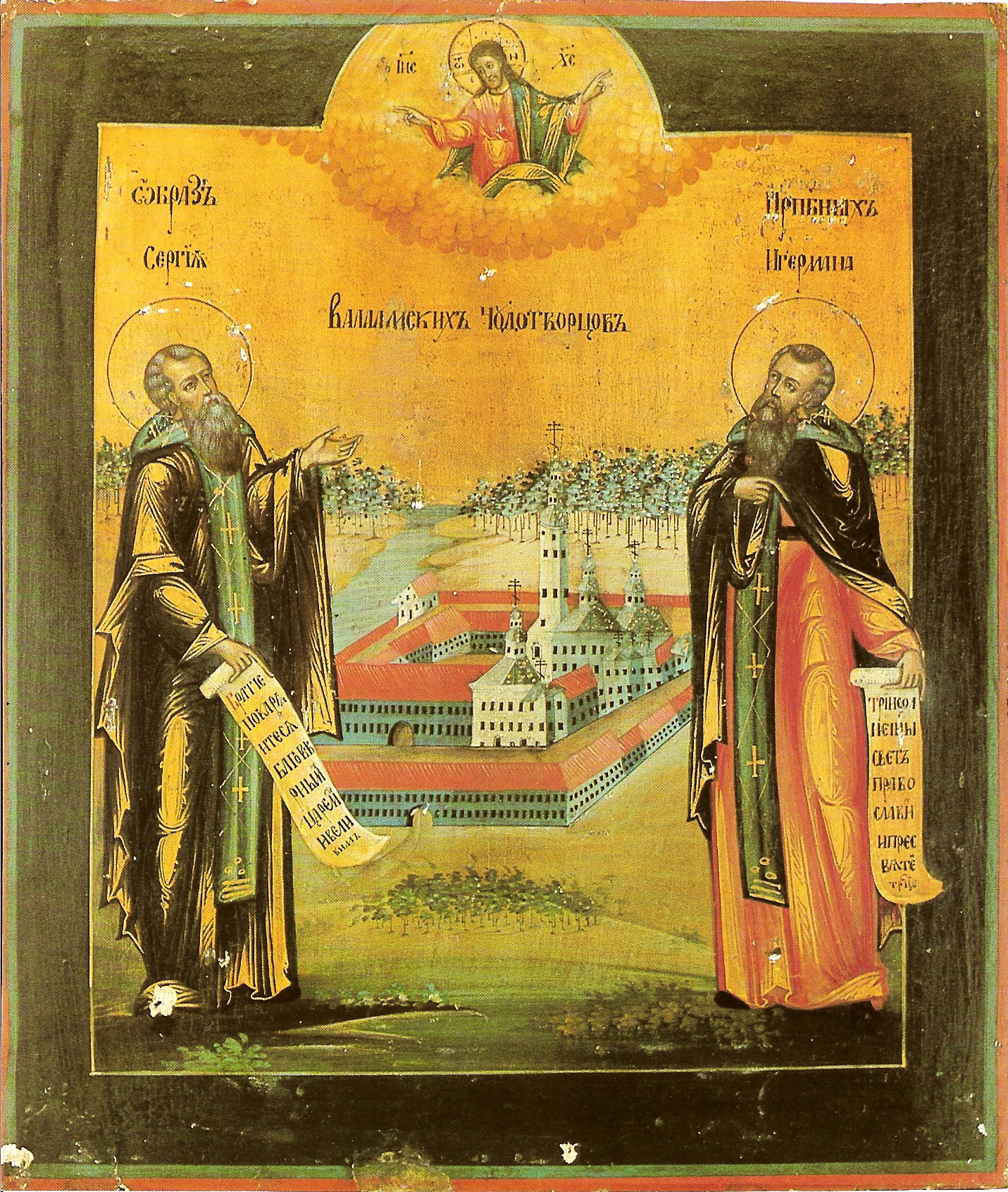 icon_valaam_monastery_19th_century